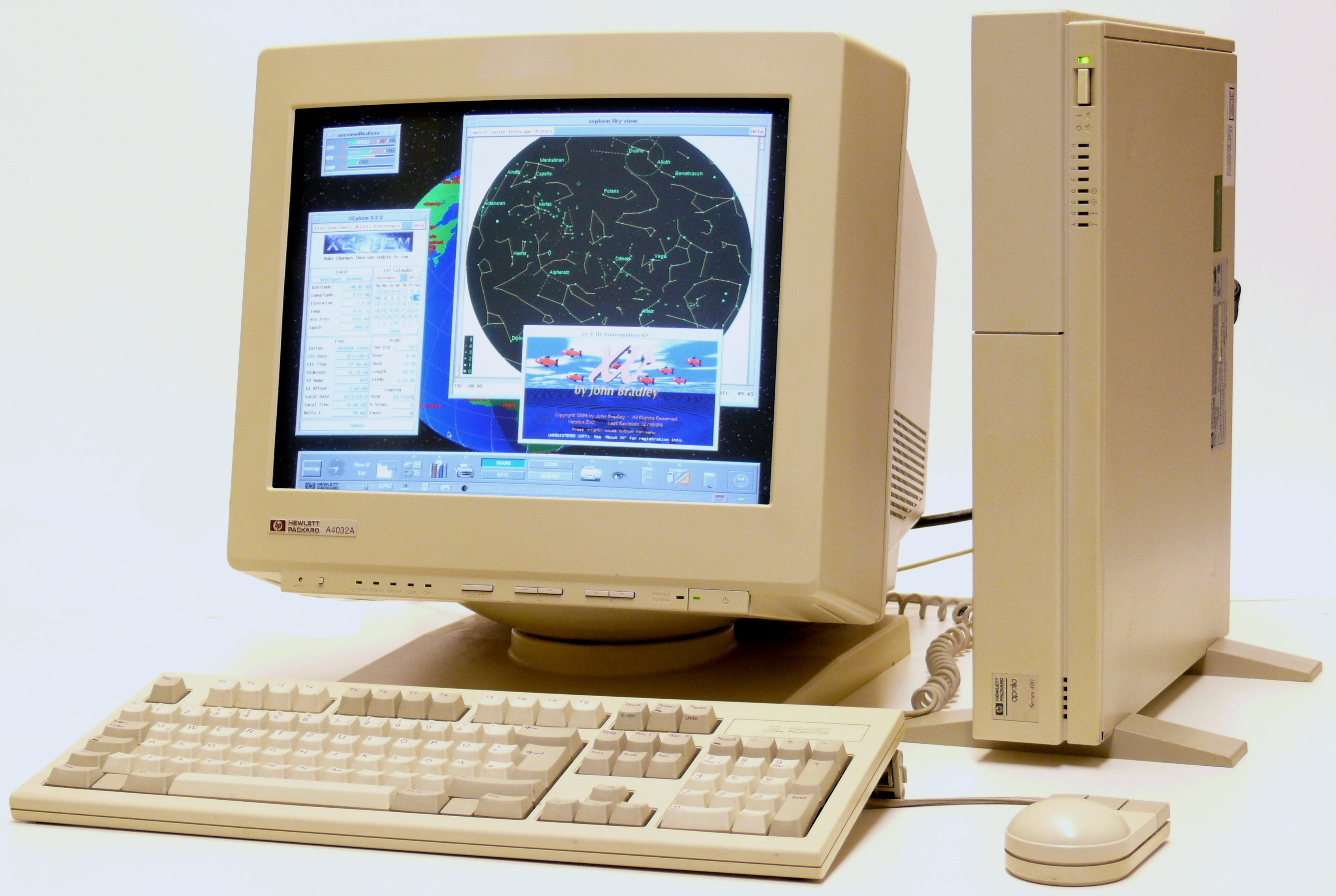 Hewlett Packard HP9000 Unix Workstation Modell 425, HP9000/425, Series 400, Motorola 68040 CPU/FPU, 25 MHz, max 48 MByte RAM, HPUX 9, VUE, SCSI, HIL, HP A4032A 17 inch CRT